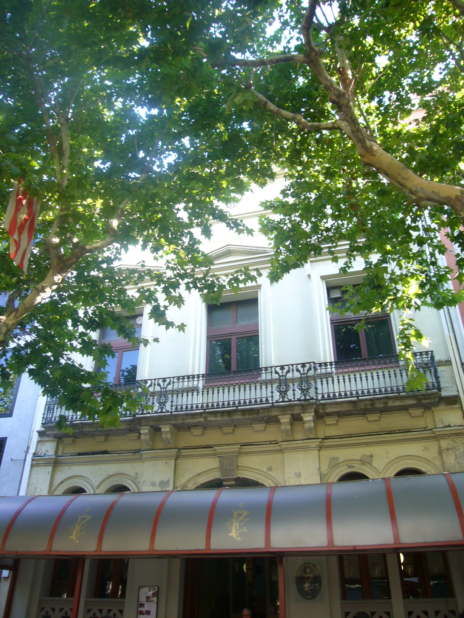 Casino Foment d'Igualada (1890). Neoclassical building. Architect Pau Riera i Galtés